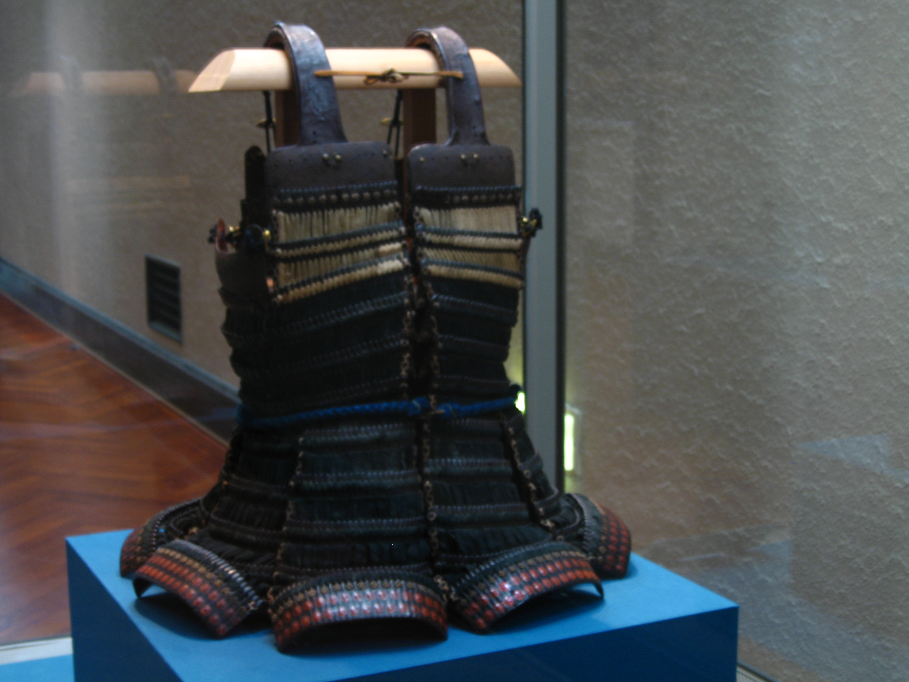 A haramaki made in 15th century at Tokyo National Museum. This is a Back view.